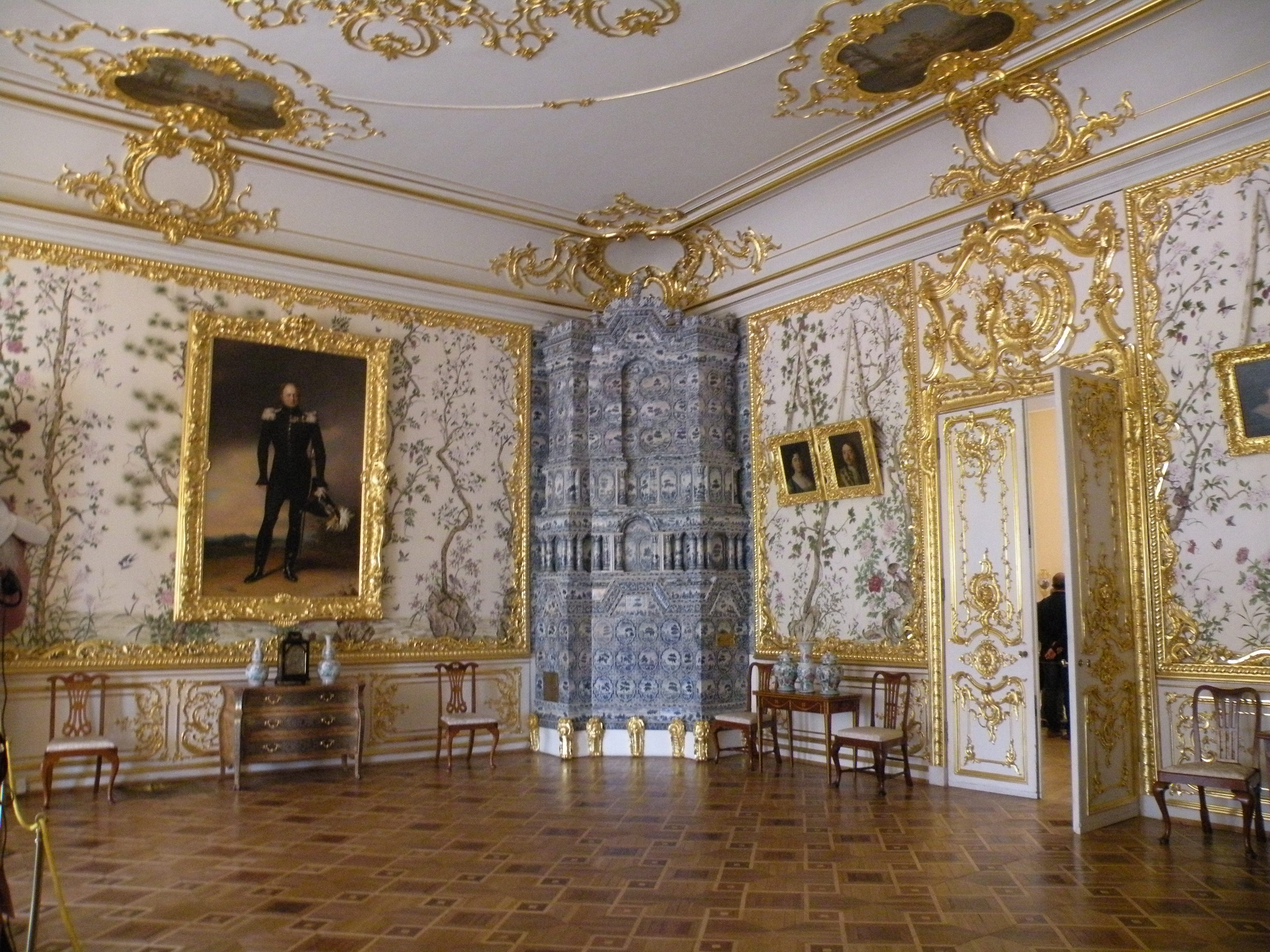 Chinese Drawing Room of Alexander I of Catherine Palace